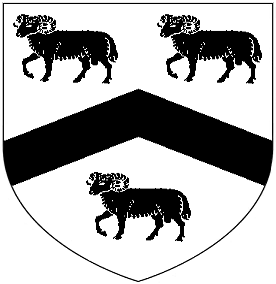 Arms of Sydenham family of Orchard Sydenham, Somerset, England: Argent, a chevron between three rams passant guardant sable. These are the arms of Sydenham of Sydenham, near Bridgwater, Somerset, differenced by a chevron sable